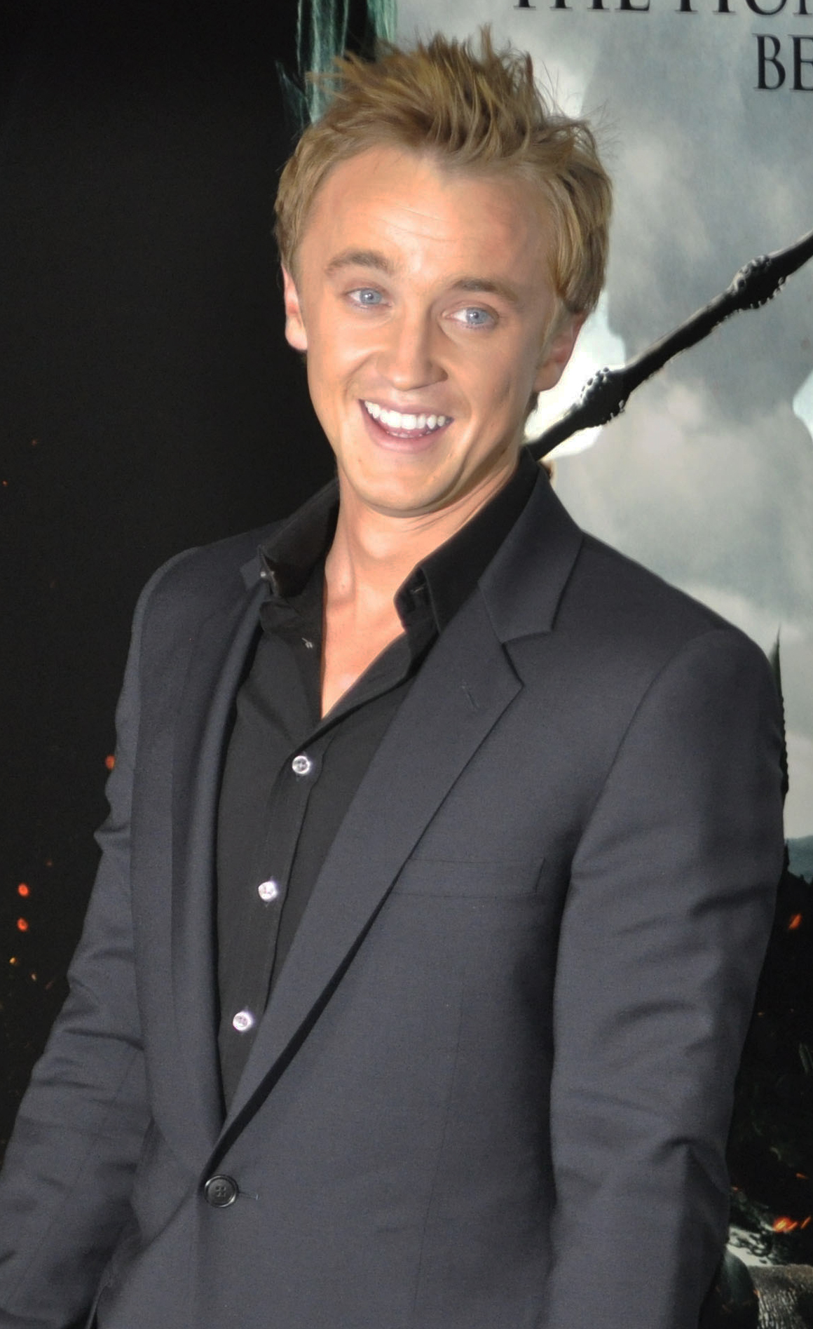 Tom Felton at the film premiere of Harry Potter and The Deathly Hallows in Alice Tully Center, New York City in November 2010.